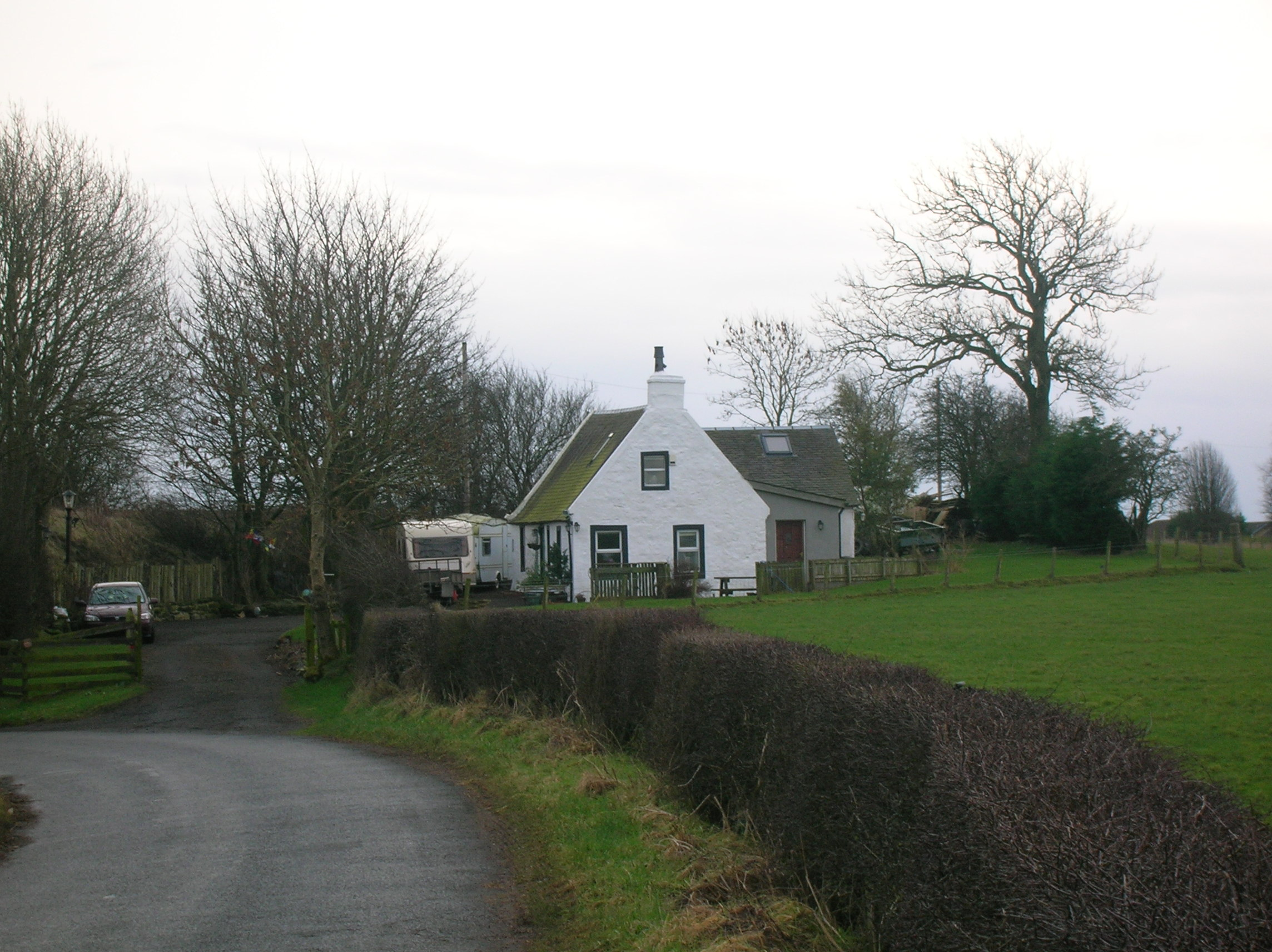 Standalane cottage just outside Kilmaurs in East Ayrshire. 2007.